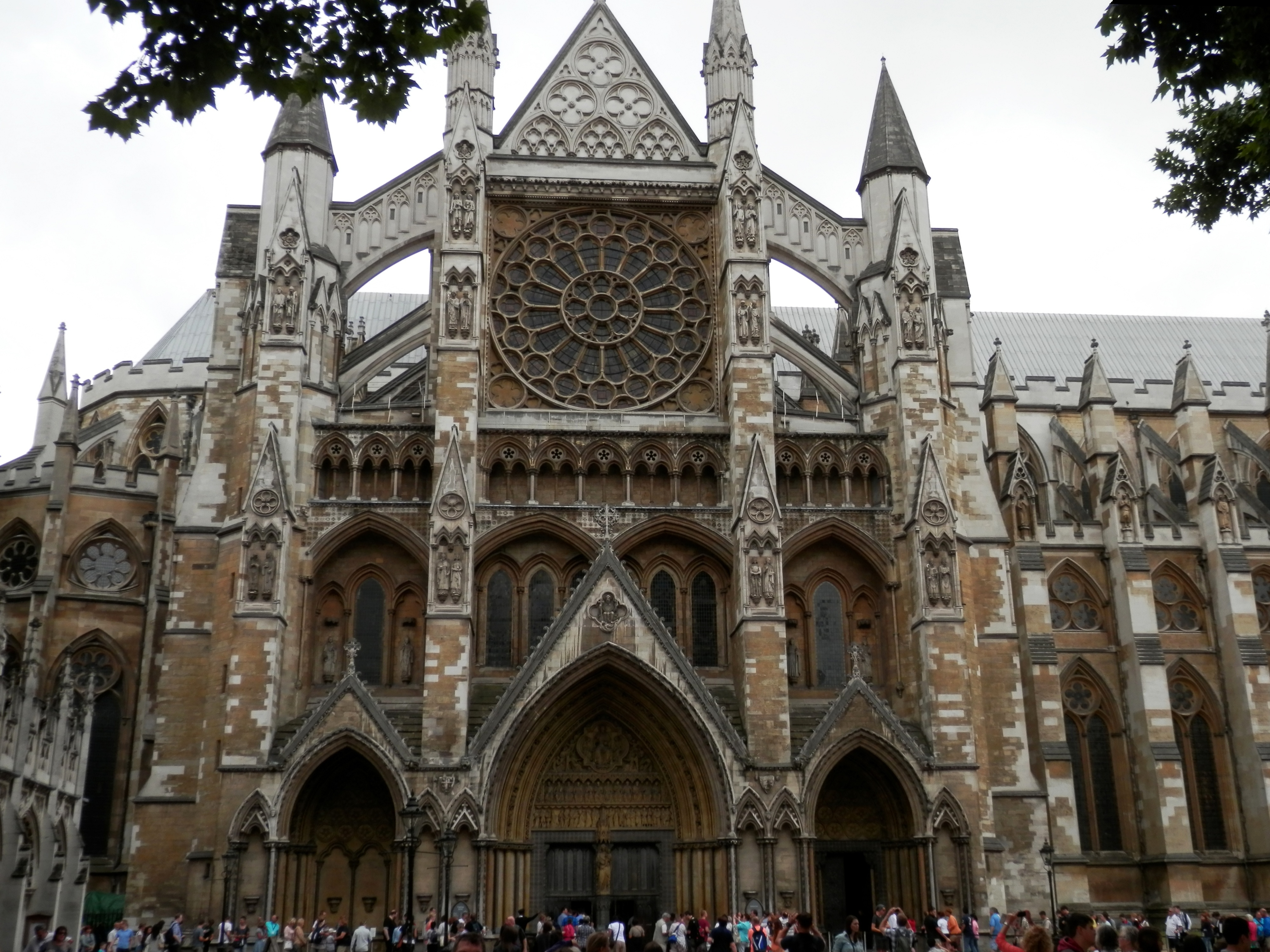 Westminster Abbey (The Collegiate Church of St Peter, Westminster, London)